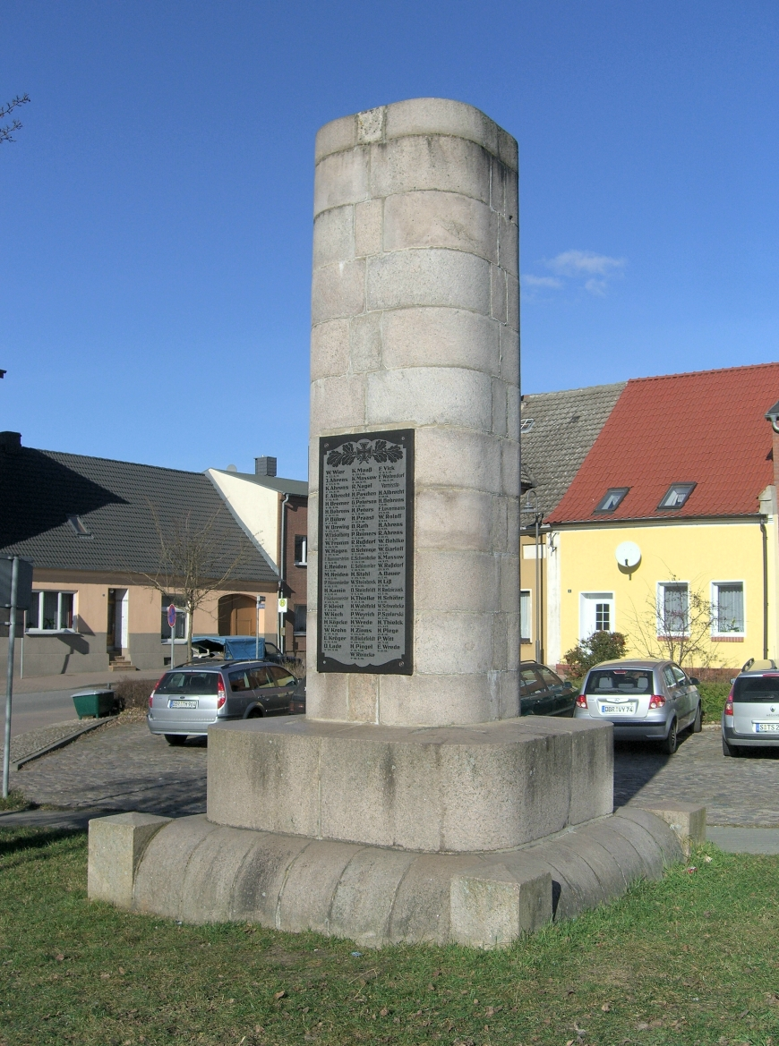 War memorial 1914/18 in Schwaan by Wilhelm Kruse